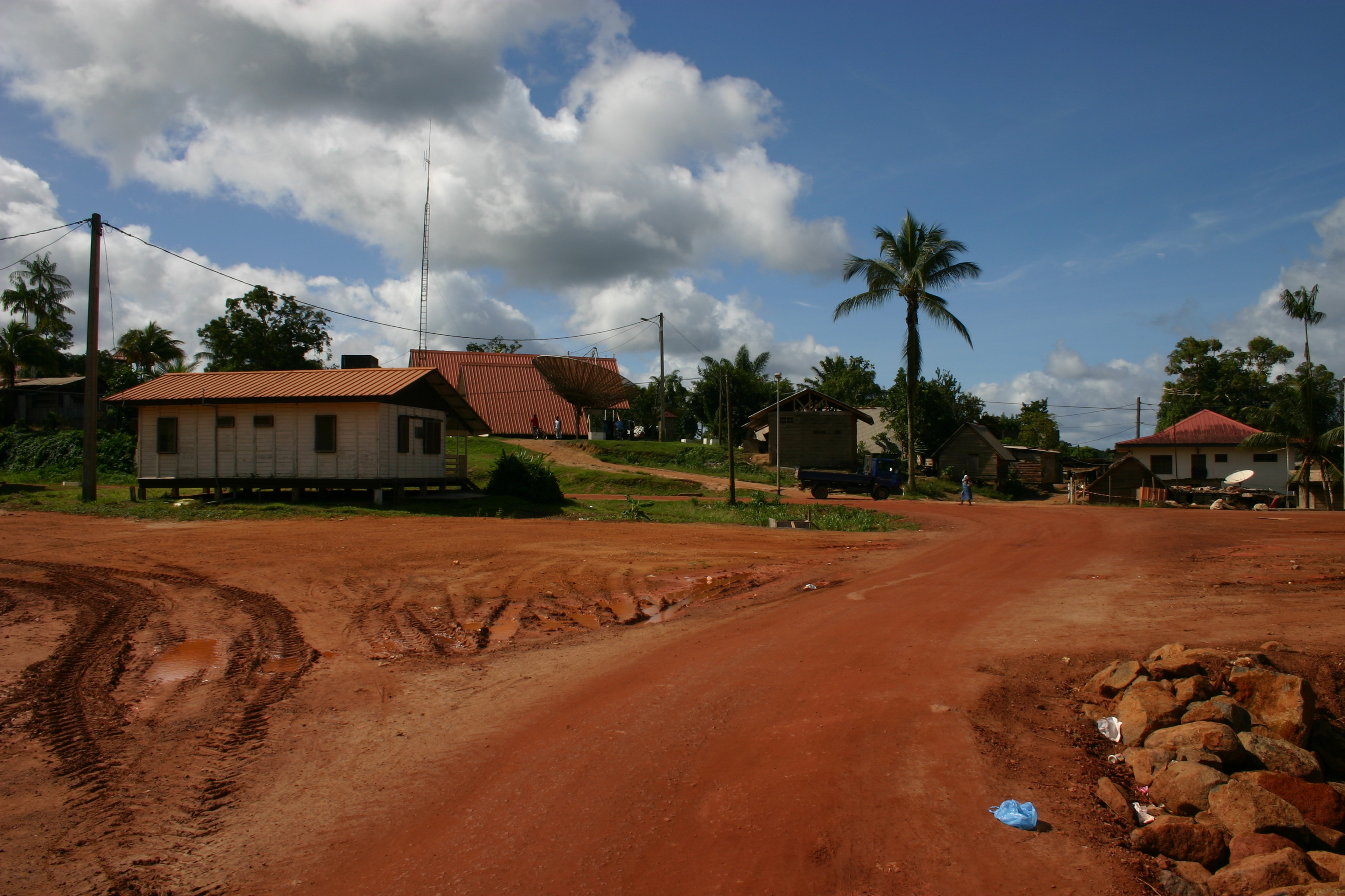 Apatou, French Guiana, January 2004